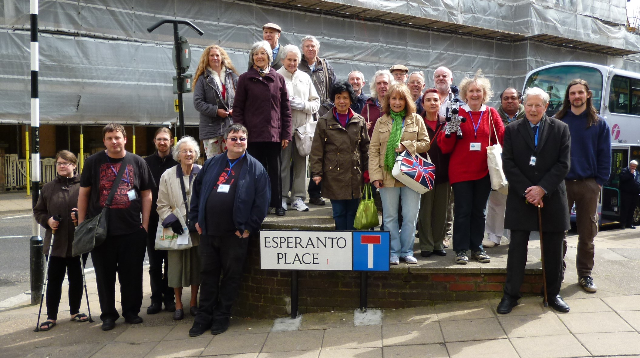 Esperantists visit Esperanto Place, Sheffield on 2014-Apr-20 during the British Congress of EsperantoEsperanto: Esperantistoj vizitas la straton Esperanto Place, Sheffield 2014-apr-20 dum la brita kongreso de Esperanto